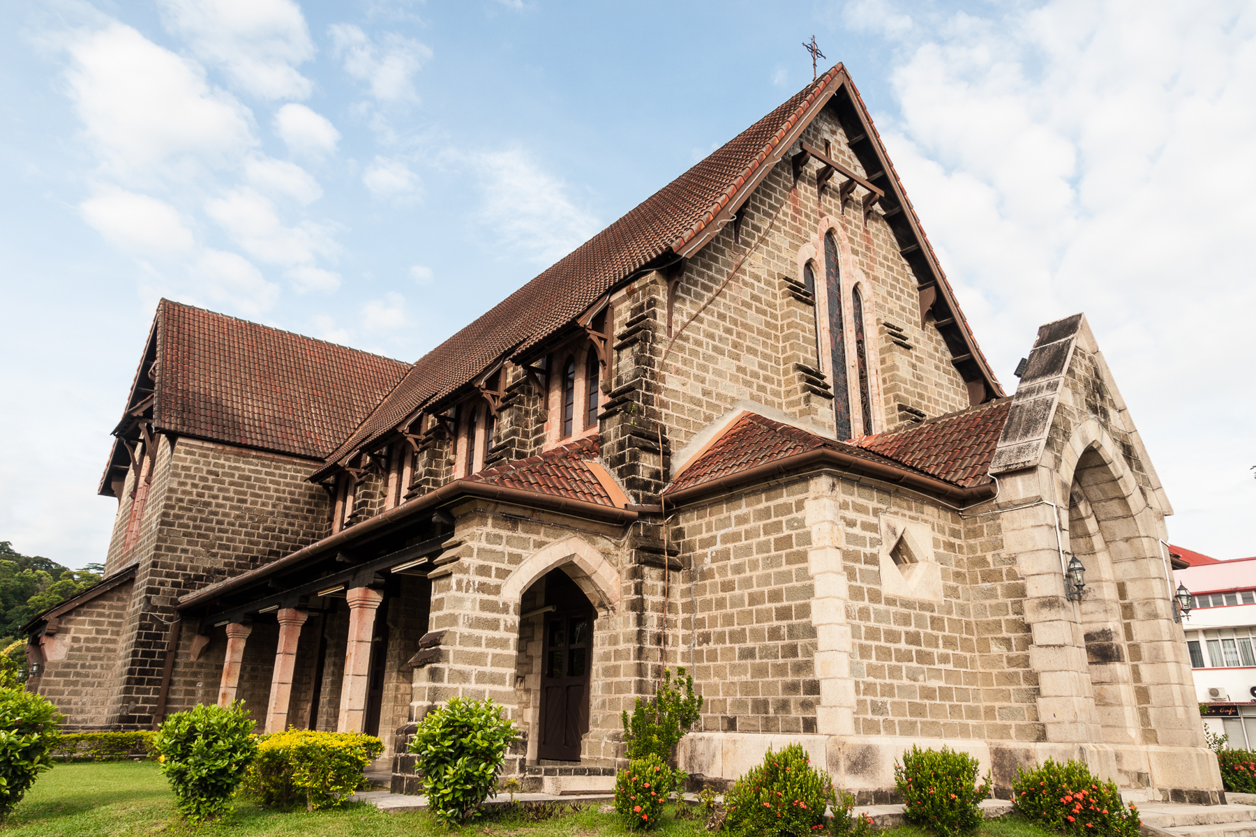 Sandakan, Sabah: Gereja St. Michael in Sandakan